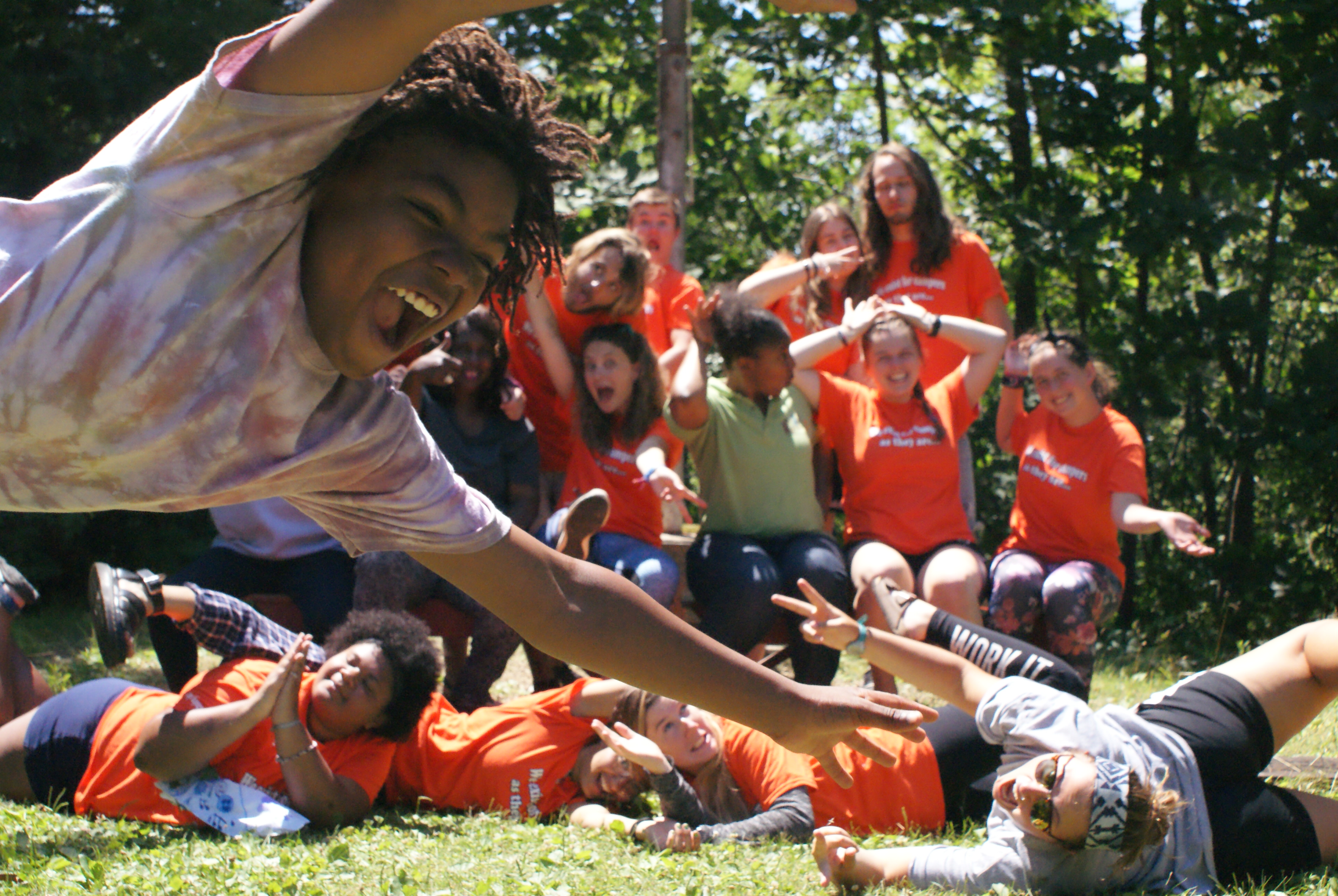 Camper enjoying life at Camp Kupugani